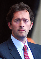 Gregor Virant in 2010.